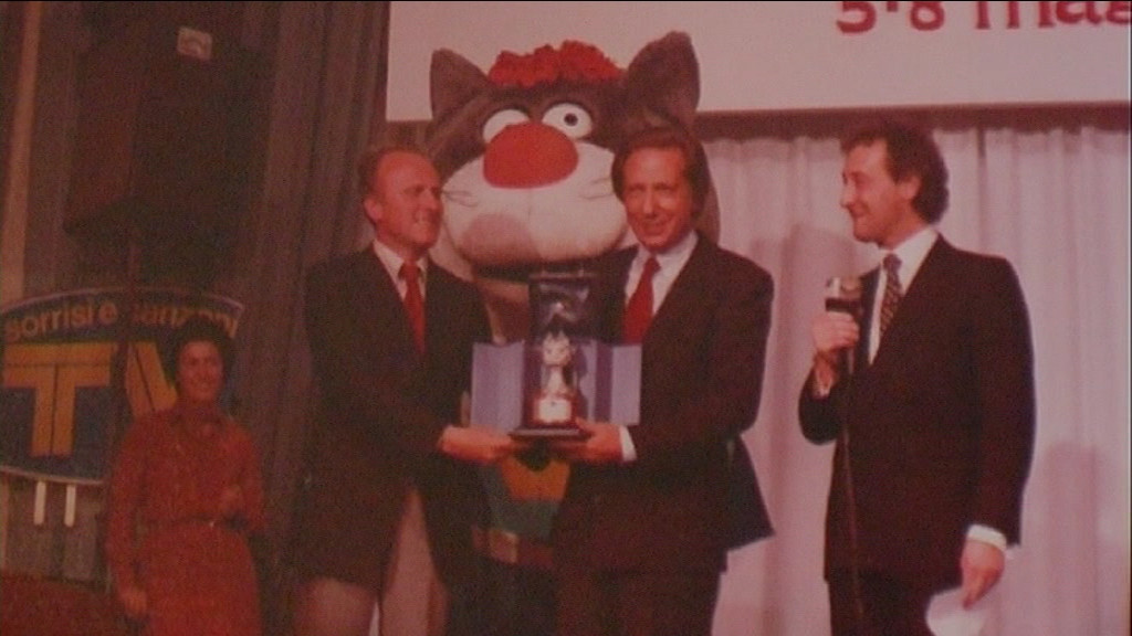 Mike Bongiorno delivers the Telegatto won by Telefriuli